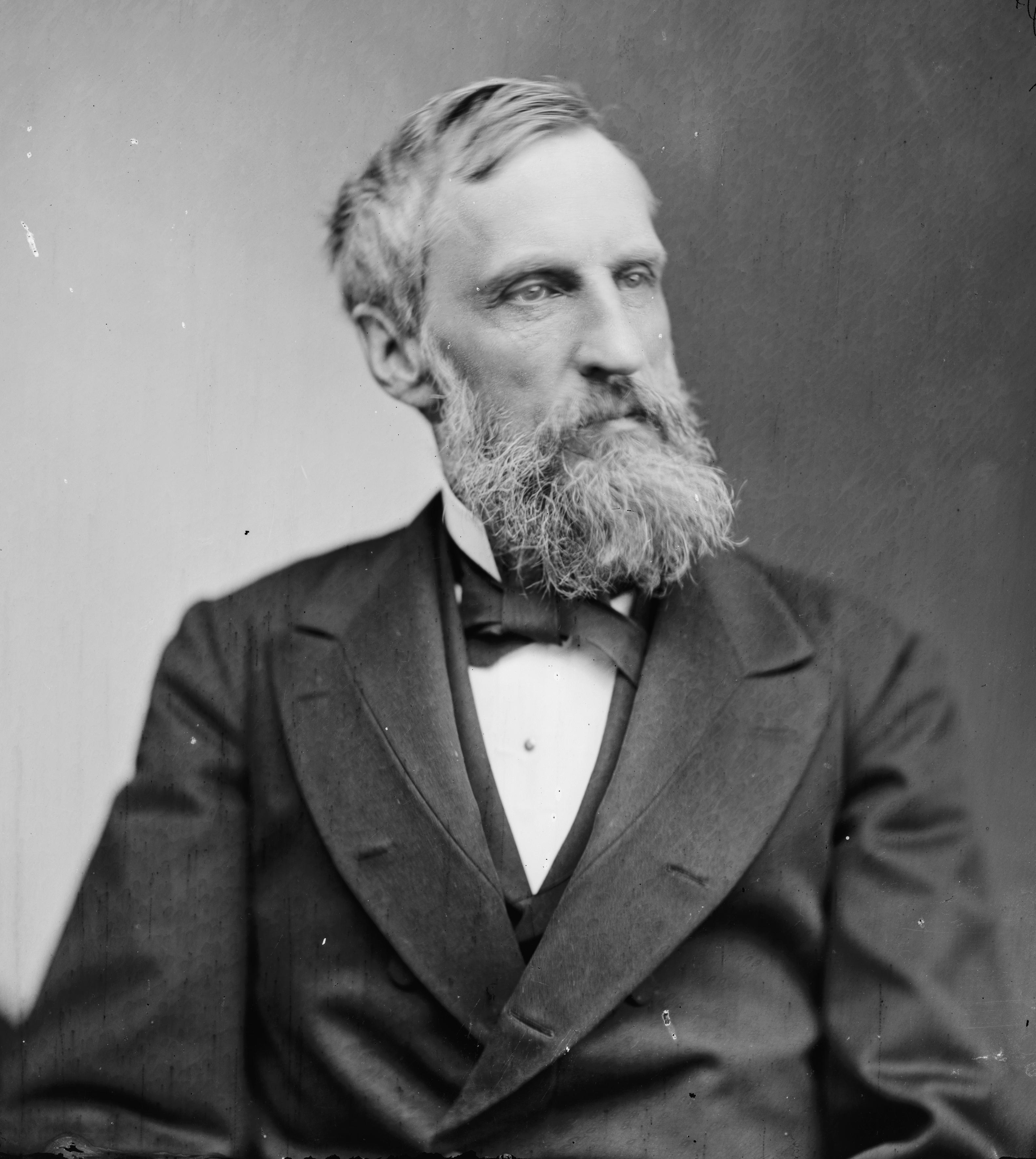 La Fayette Grover. Library of Congress description: "Grover, Hon. LaFayette of Oregon"